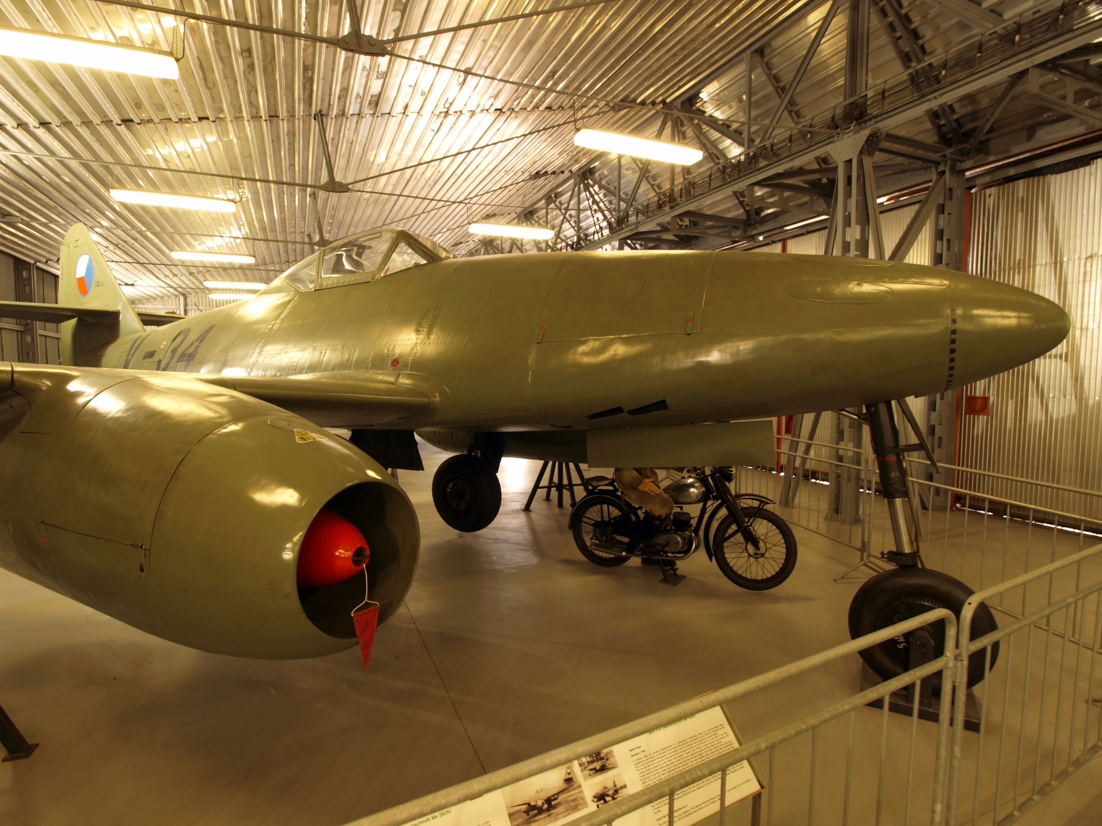 Avia S-92 V-34 (Czechoslovak-made Messerschmitt Me 262A), Kbely museum, Prague, Czech Republic. Photograph taken without a tripod (was not allowed!).